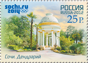 XXII Olympic Winter Games in Sochi. Russian Black Sea coast tourism 3